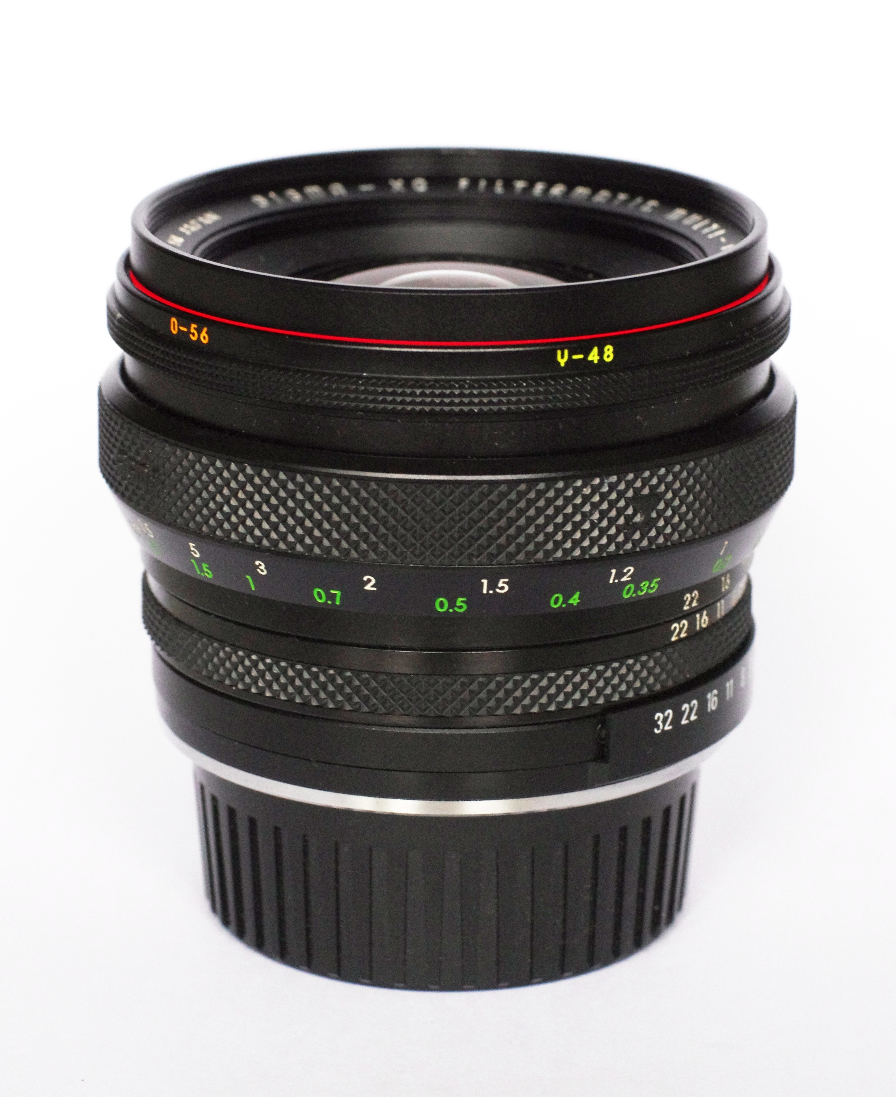 Sigma-XQ 24mm F2.8 Filtermatic lens for Pentax K mount.